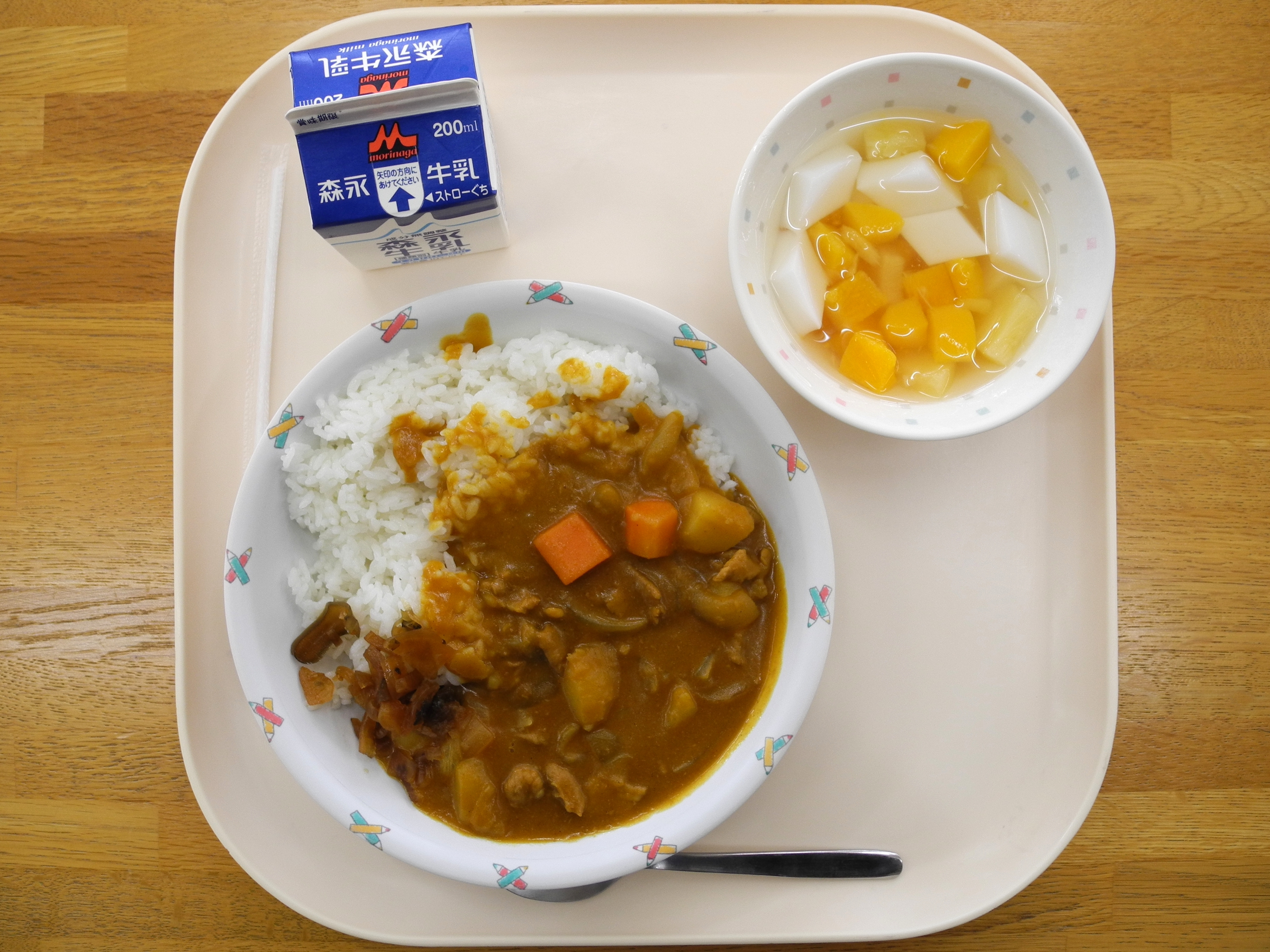 School lunch at Hitane Elementary School. Milk, fruit salad, rice, and chicken curry. Shimo-Hitane, Chokai, Yurihonjo, Akita, Japan.